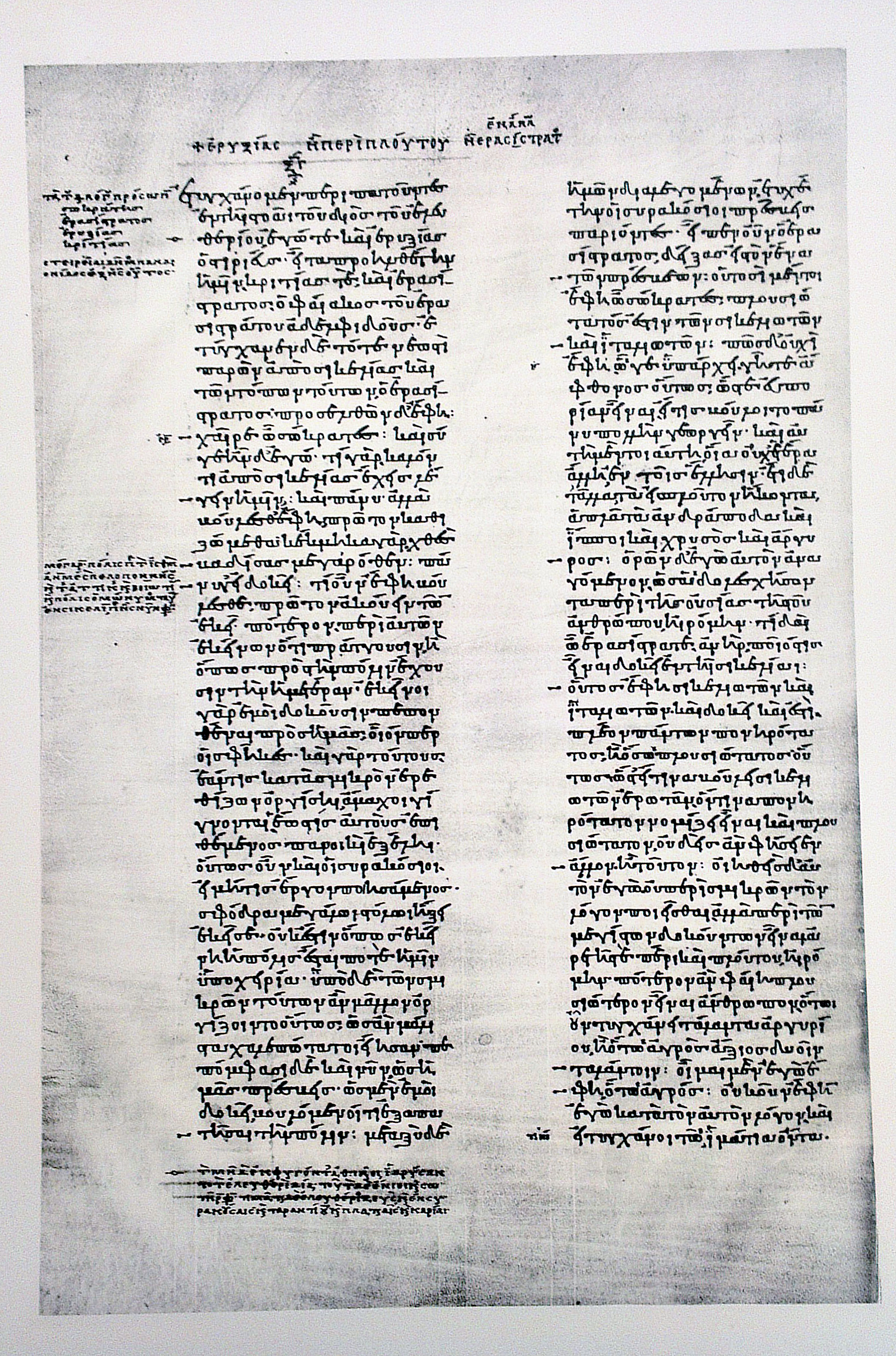 Page of the Codex Parisinus graecus 1807. Dialogue Eryxias.